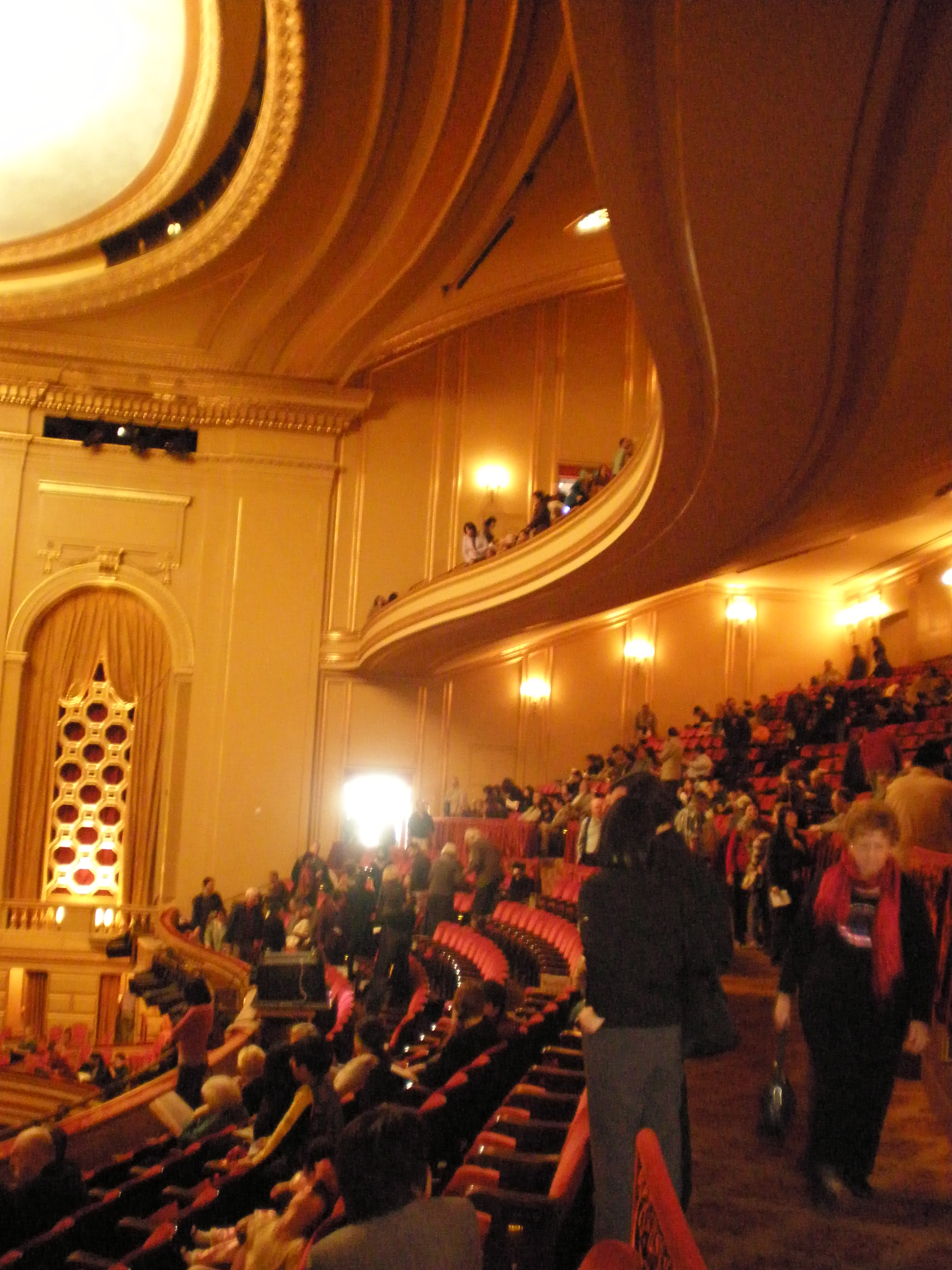 The Director's Circle and balcony levels of the War Memorial Opera House in San Francisco.